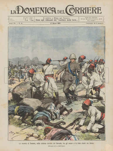 The clash of Danane, in the Italian colony of Benadir, between the Ascari and the rebel tribes of Bimal. Illustration for The Sunday Courier, 17 March 1907.